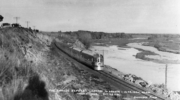 Card photo of the Burlington Route's Denver Zephyr at McCook, Nebraska — October 18, 1936. A group of people can be seen gathered on the bluff at upper left to watch and photograph the train as it passed by.